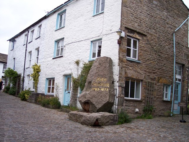 Adam Sedgwick memorial stone Shap granite stone commemorates the geologist Adam Sedgwick who was born here.